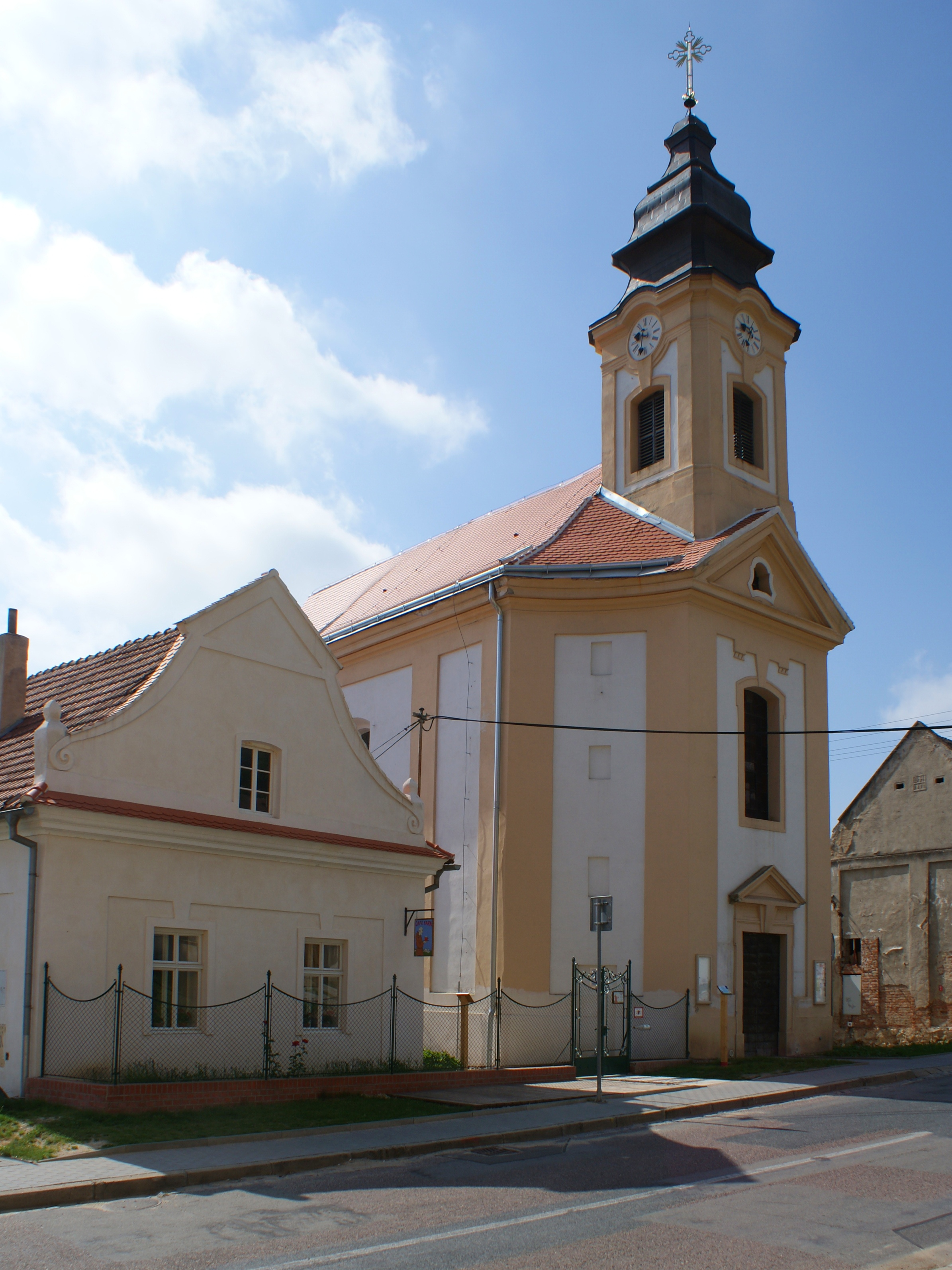 Klentnice, a village in Břeclav District, Czech Republic, baroque church of St George.